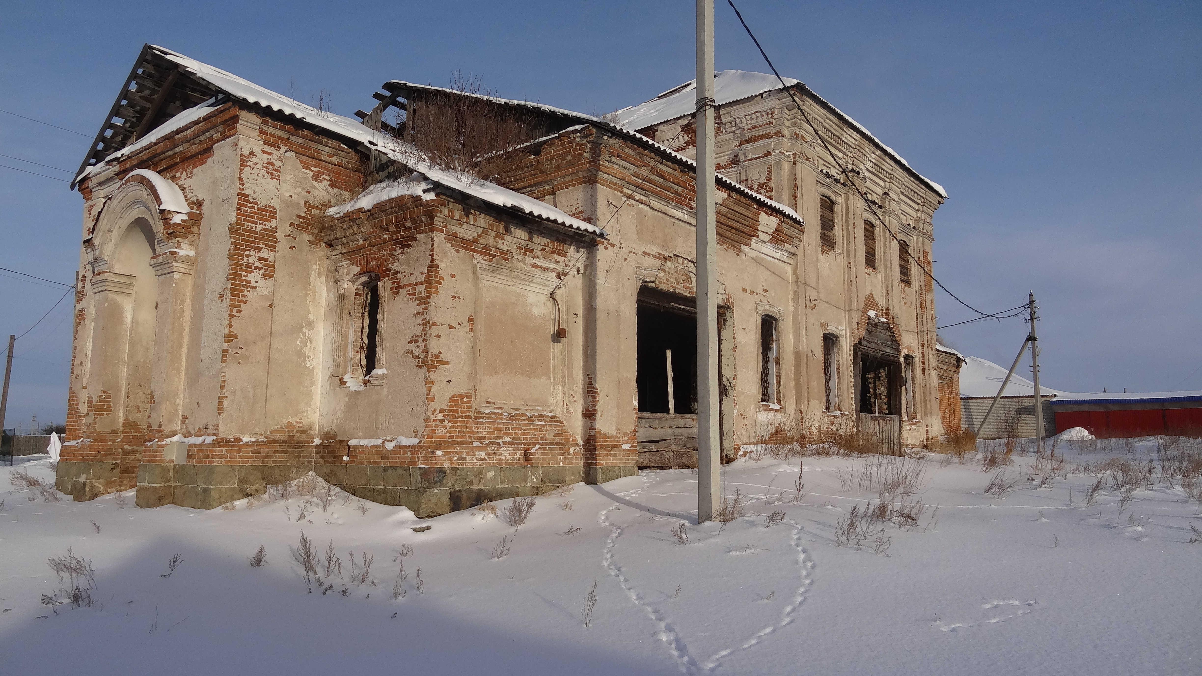 Church of the Transfiguration in Bolshaya Gryaznuha, Sverdlovsk Oblast, Russia.